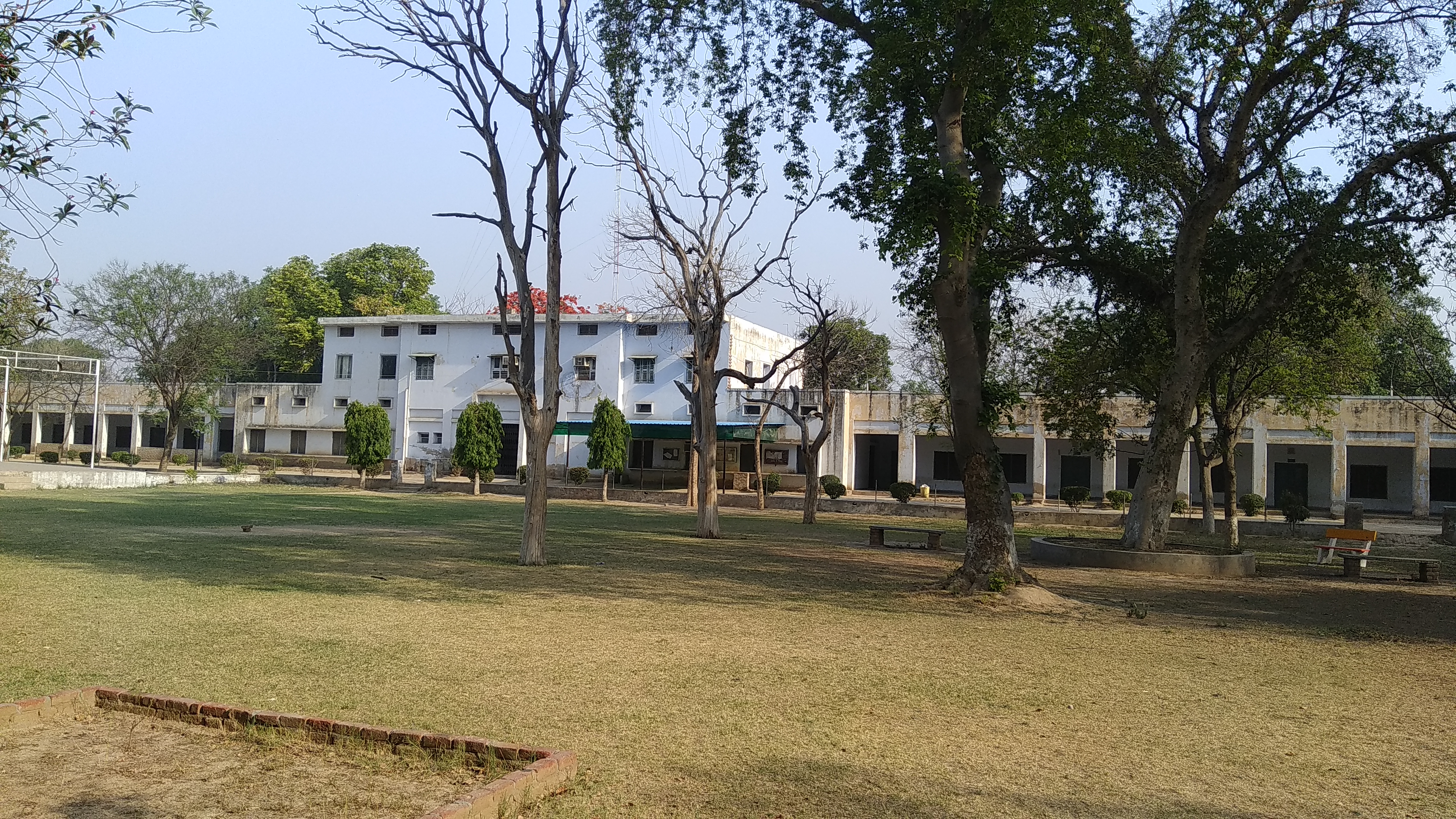 Main acadeic block of Guru Kashi College, Talwandi Sabo